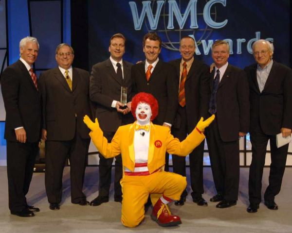 McDonalds Exellence Award 2005